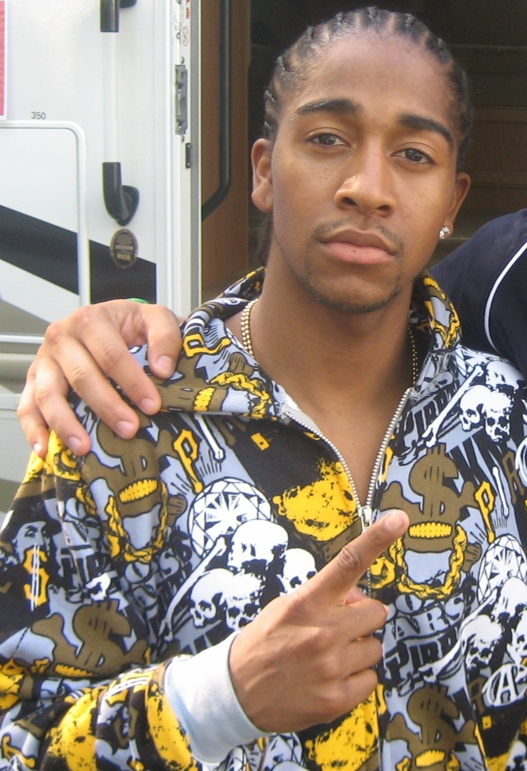 Omarion in 2007